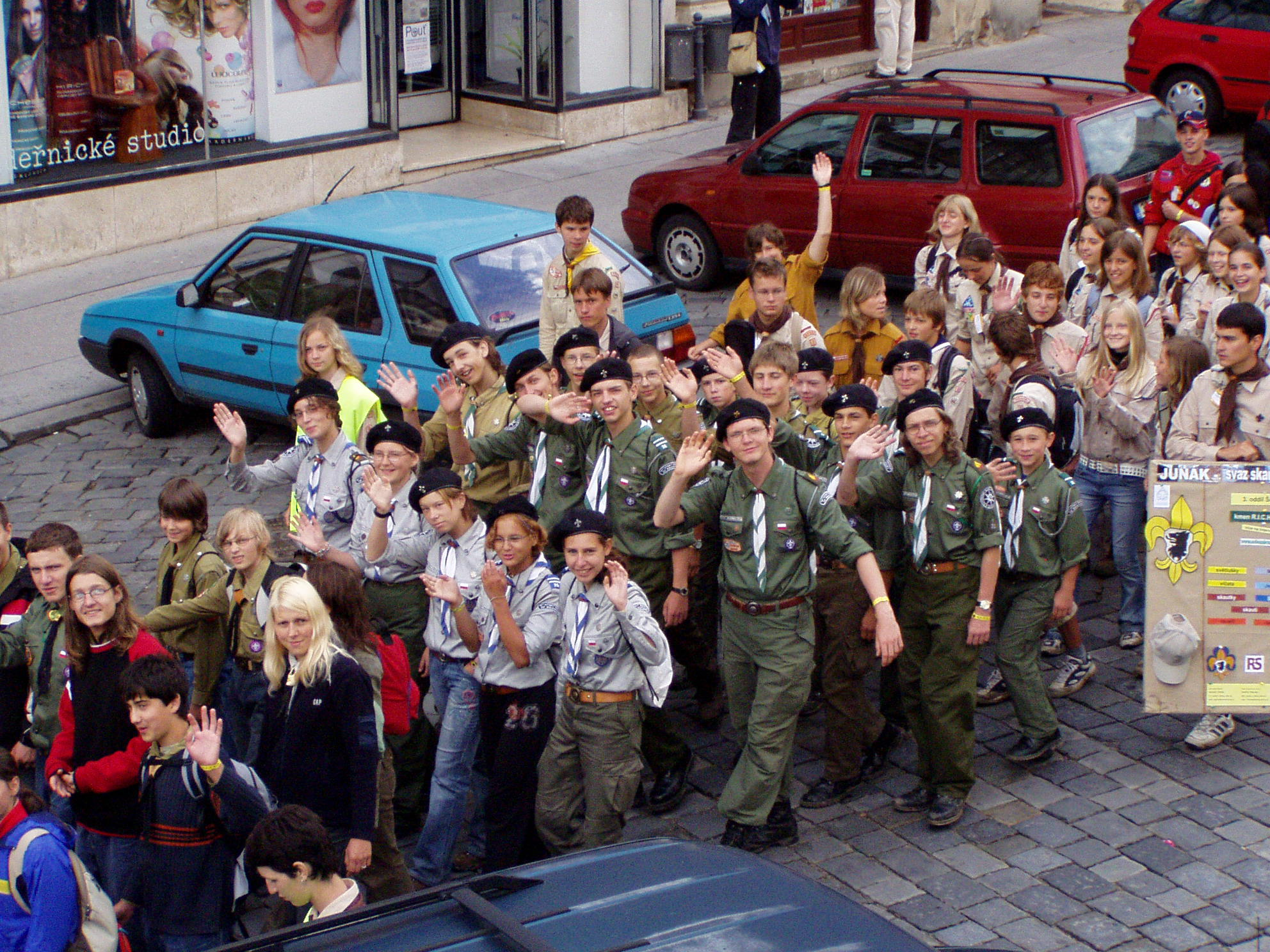 Orbis 2006 - 8th Central European Jamboree (representation of Harcerski Klub Turystyczny "Azymut" - Swarzędz - Poland)